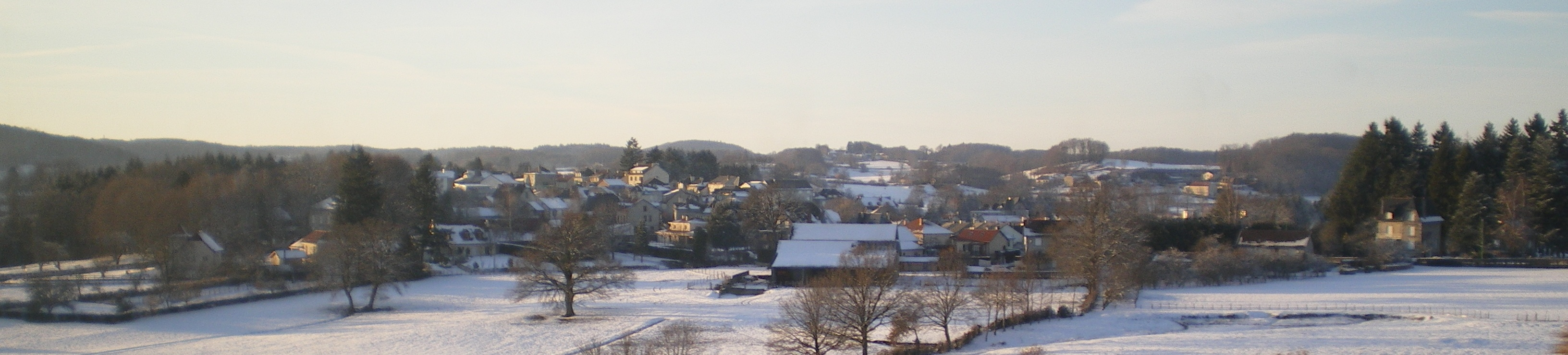 Le Rouget, Cantal, France , january,31,2010